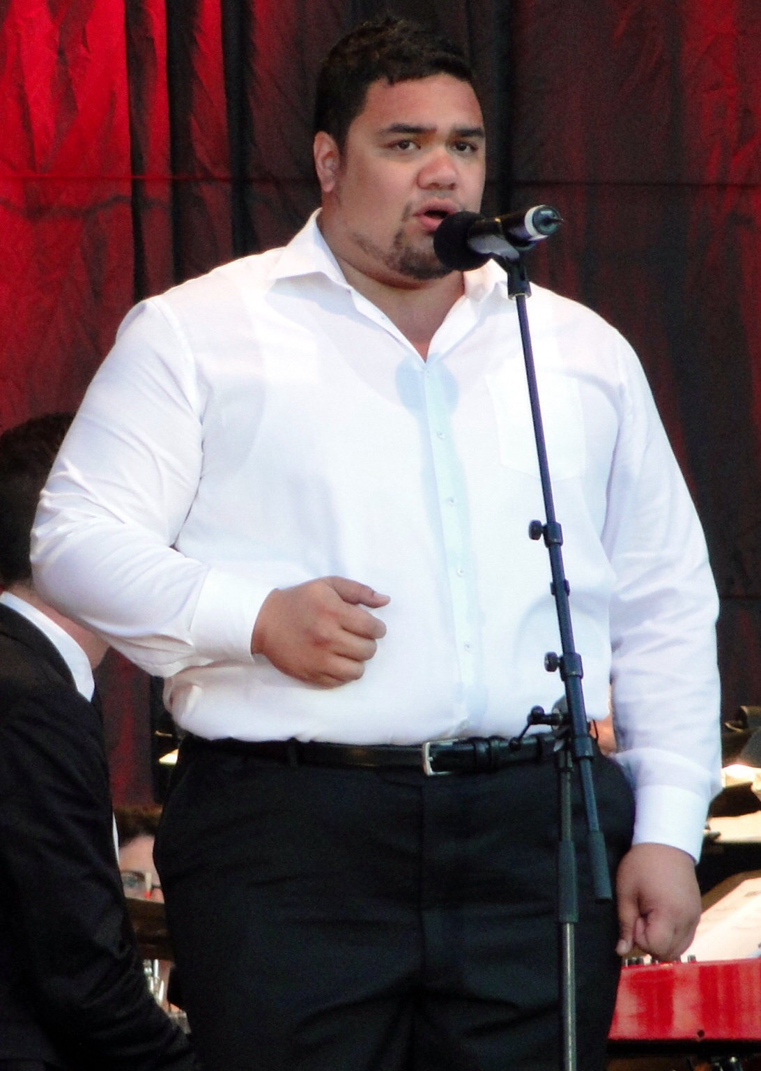 Pene Pati in Nelson, New Zealand